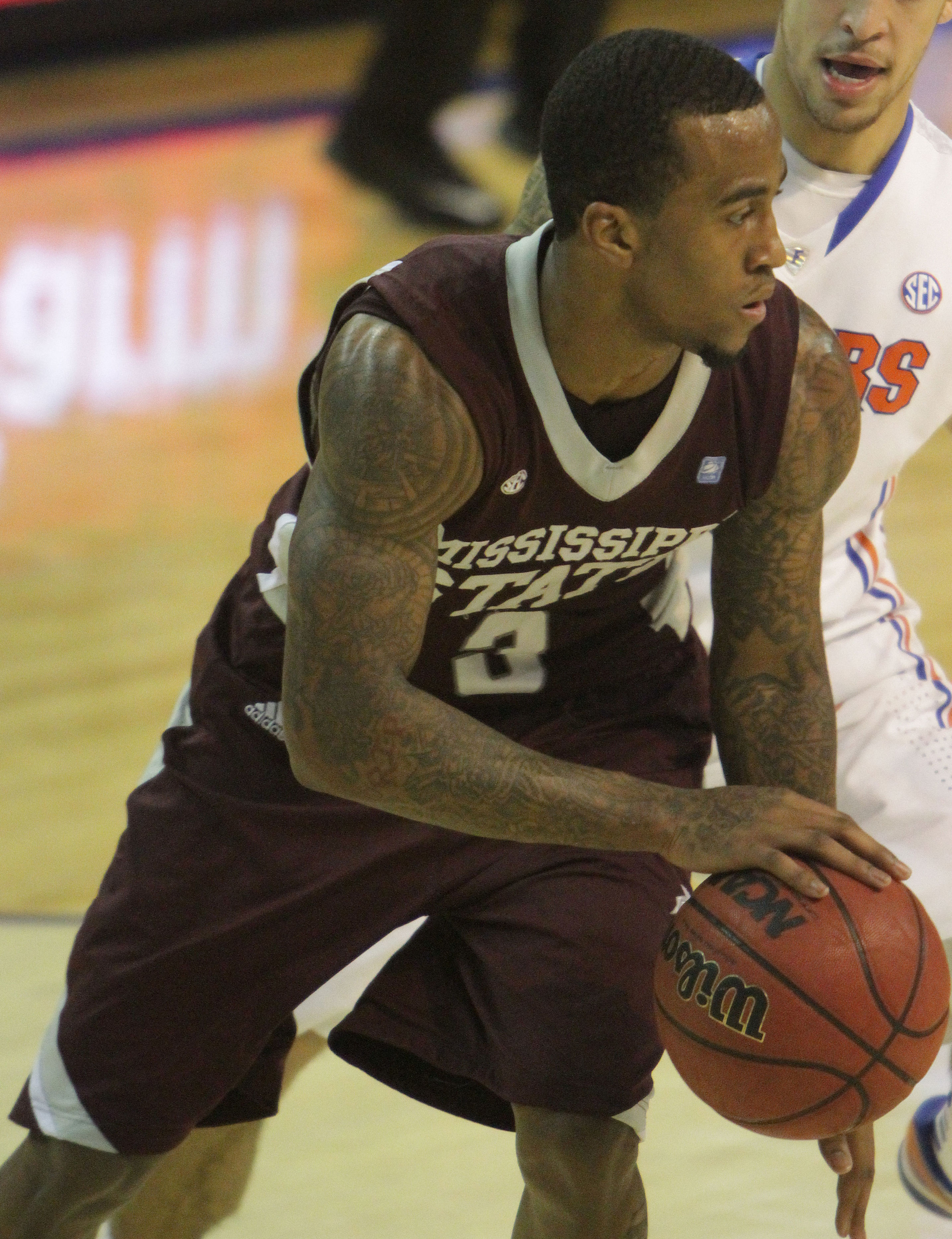 Scottie Wilbekin makes Dee Bost work for his points